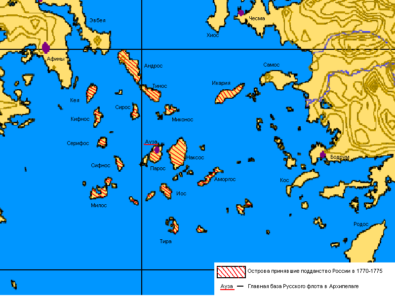 This is map of Aegean Sea irelands, controled russian navy administration in 1770-1774 during Russo-Turkish War.